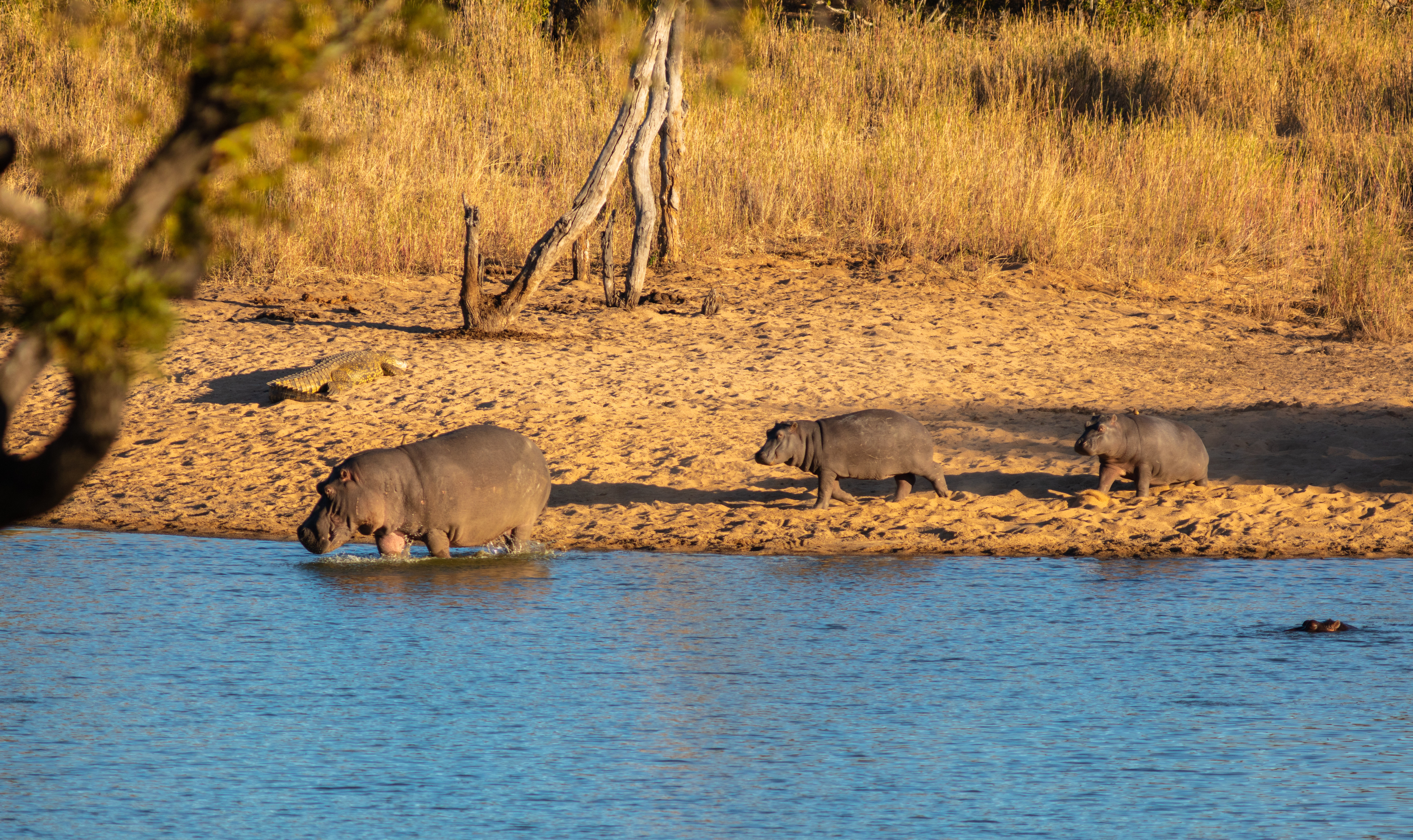 Common hippopotamus (Hippopotamus amphibius), Kruger National Park, South Africa